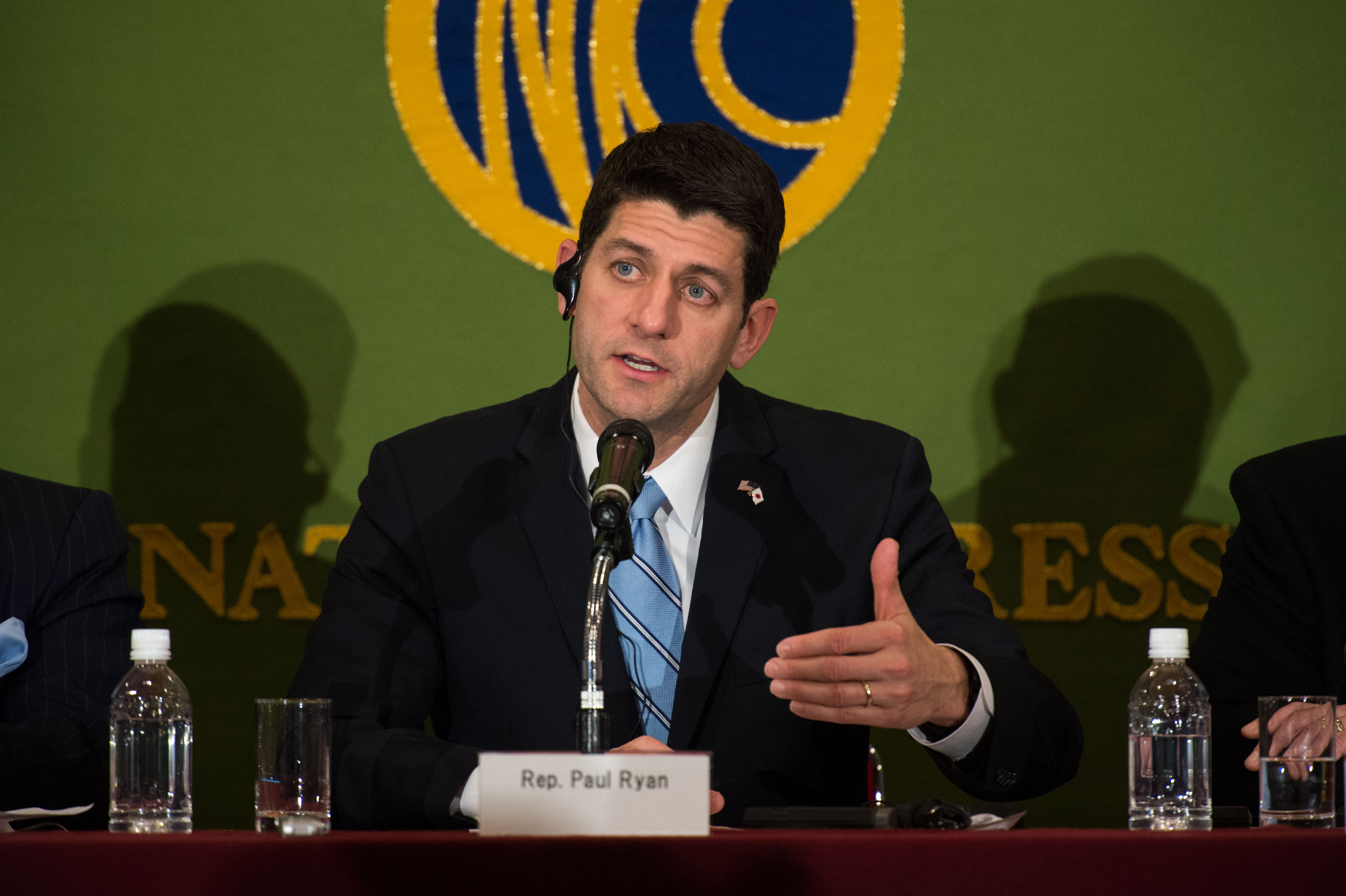 TOKYO, Japan (February 19, 2015) Rep. Paul Ryan (R-WI), House Ways and Means Committee Chairman, and seven other members of a congregational delegation visiting Japan address the international media in Tokyo. Rep. Ryan heads the delegation that includes: Rep. Gregory Meeks (D-NY), Rep. Devin Nunes (R-CA), Rep. Pat Tiberi (R-OH), Rep. Dave Reichert (R-WA), Rep. Charles Boustany (R-LA), Rep. Vern Buchanan (R-FL), Rep. Adrian Smith (R-NE). [State Department photo by William Ng/Public Domain]